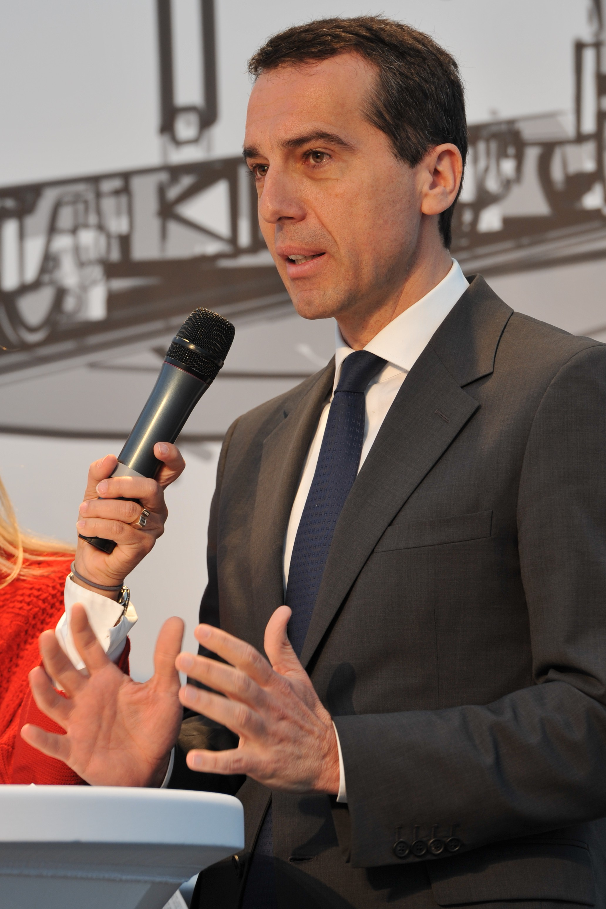 Christian Kern beim Spatenstich des Semmering-Basistunnels am 25. April 2012 The making of this work was supported by Wikimedia Austria. For other files made with the support of Wikimedia Austria, please see the category Supported by Wikimedia Österreich.